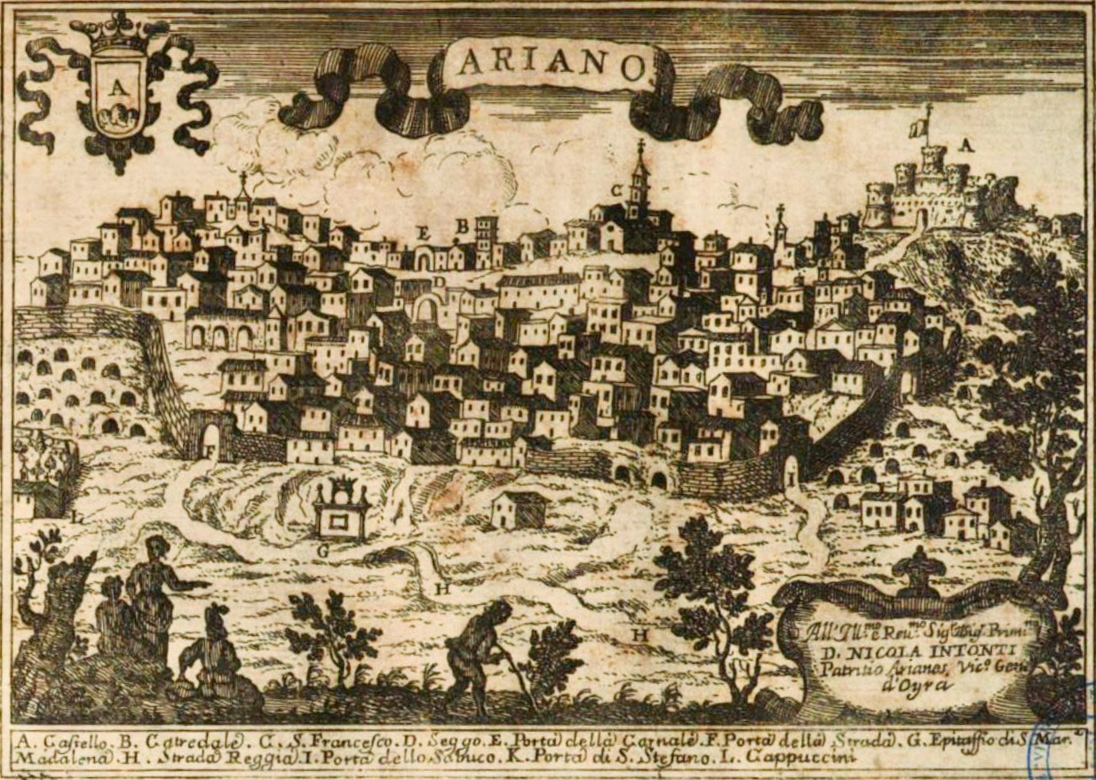 A view of Ariano (now Ariano Irpino), a town within the Kingdom of Naples, late 17th century